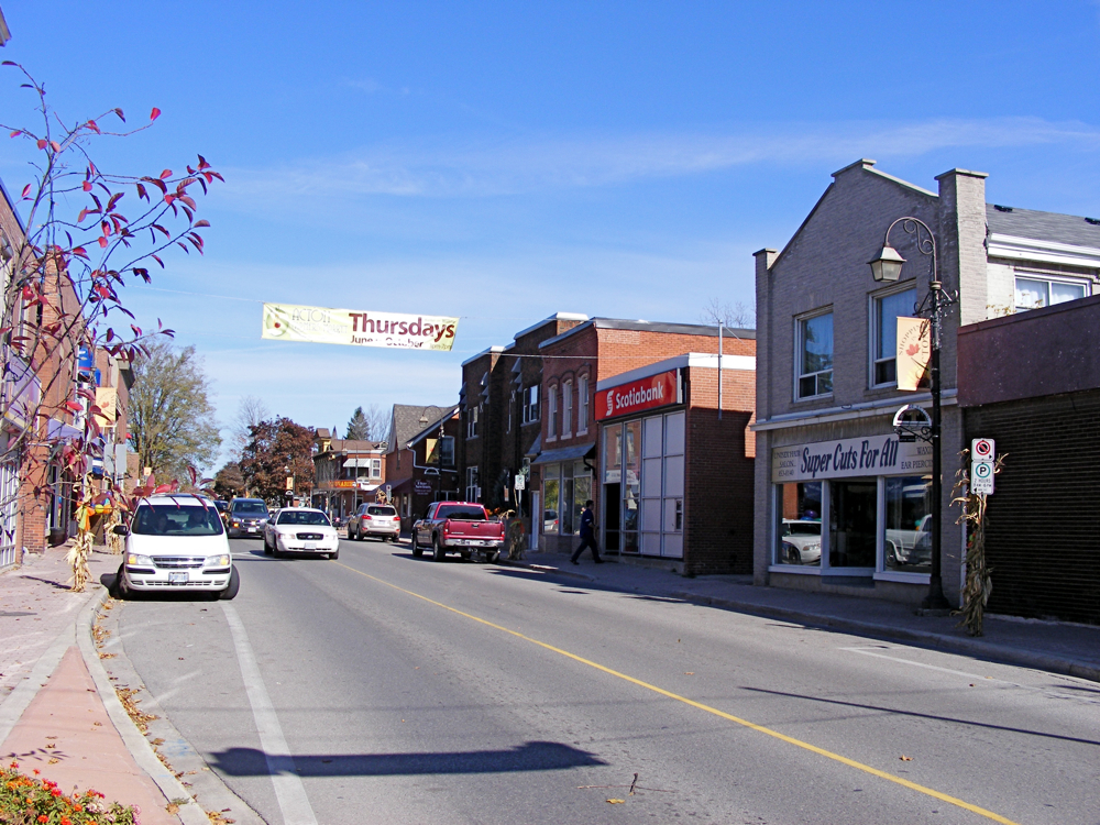 Mill Street in Acton, Ontario (main street of town).